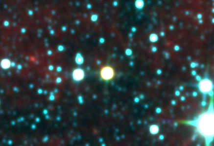 A multi-color WISE image centered on the binary brown dwarf WISE 1049-5319. The binary appears as a yellow disk — the individual brown dwarfs are not resolved.